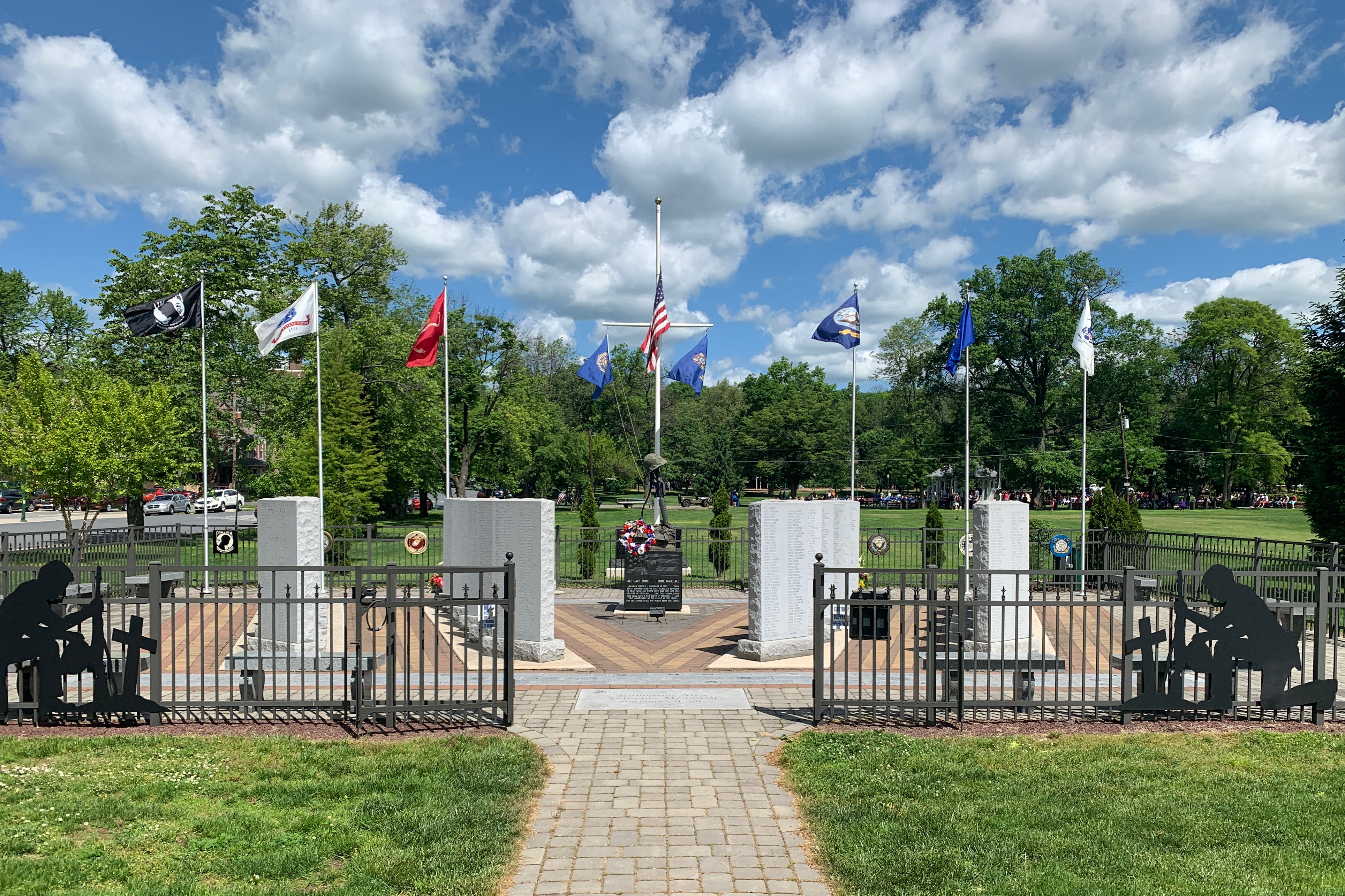 The Palmerton Area Veterans Memorial in the community park of Palmerton, Pennsylvania. The park is a contributing property of the Palmerton Historic District.